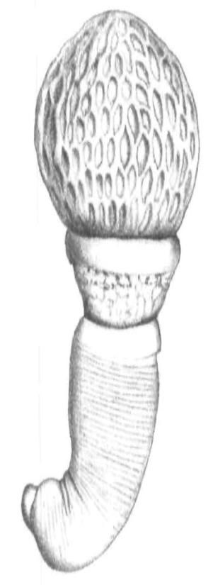 A specimen of Apororhynchus hemignathi - a spieces of thorny-headed worms (phylum Acanthocephala). Magnified x20.